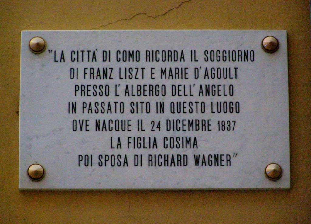 Cosima Wagner in Como.